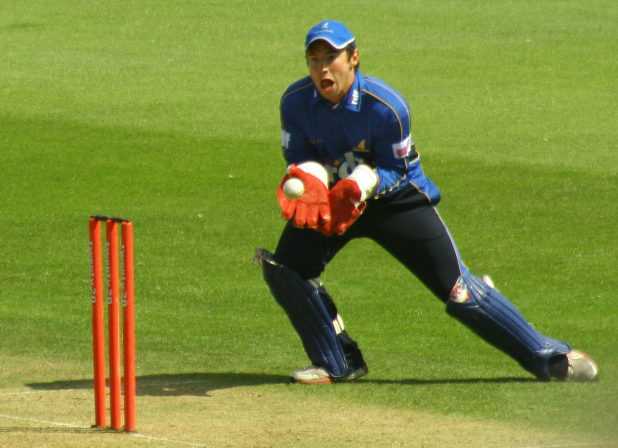 Andrew Hodd, Yorkshire Wicketkeeper